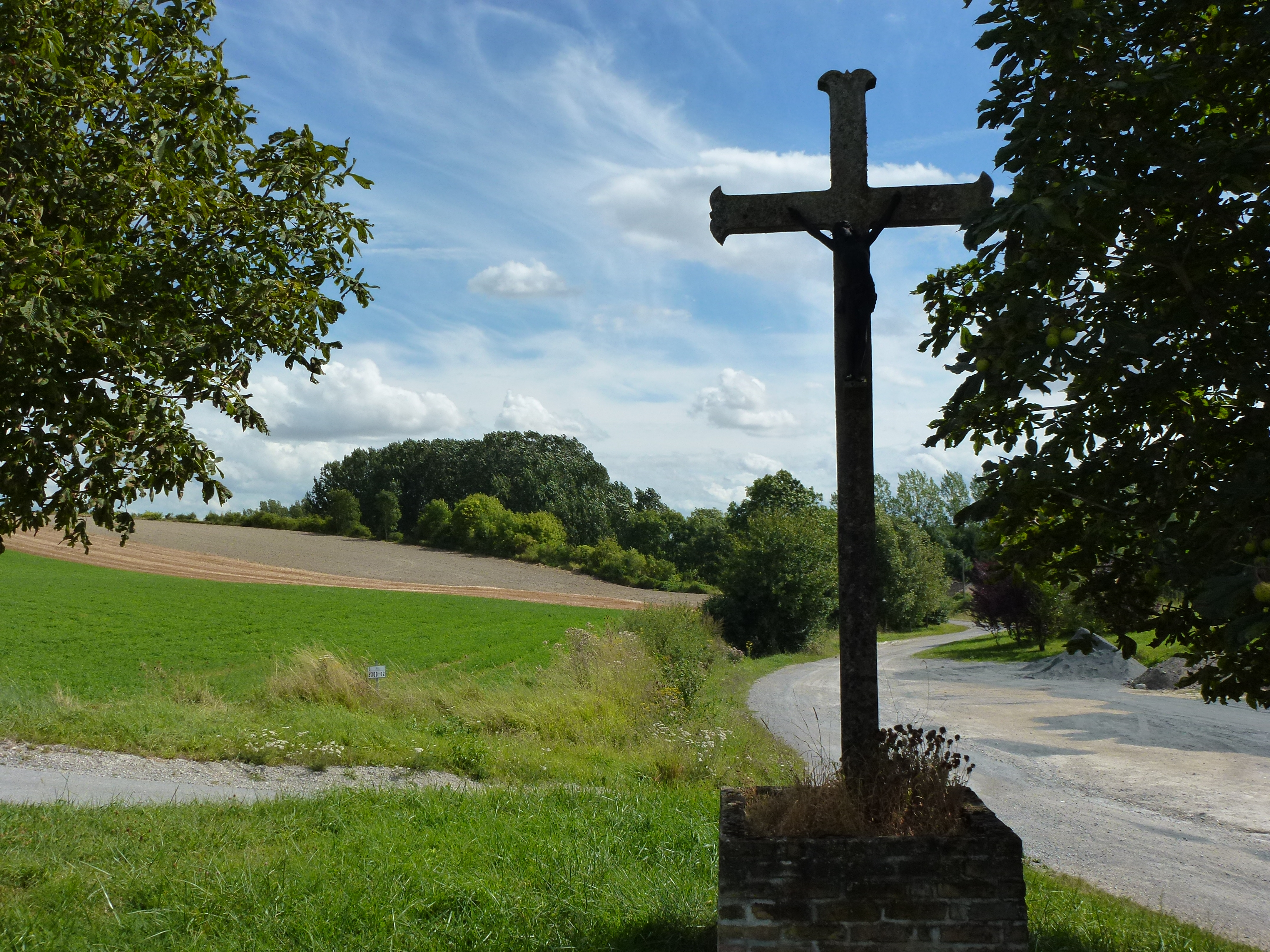 Barby (Ardennes) croix de chemin